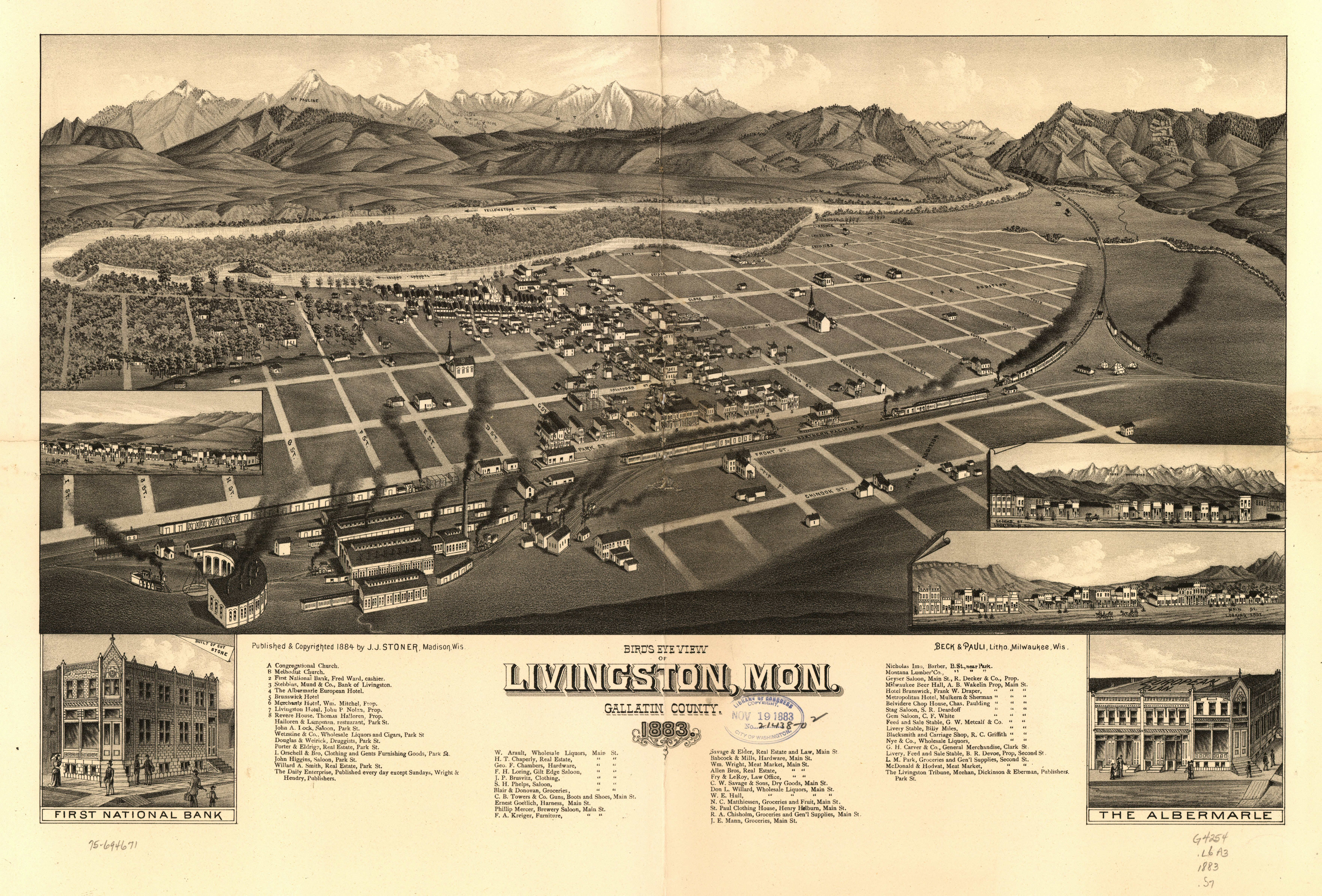 Bird's Eye Plat of Livingston, Montana, circa 1883